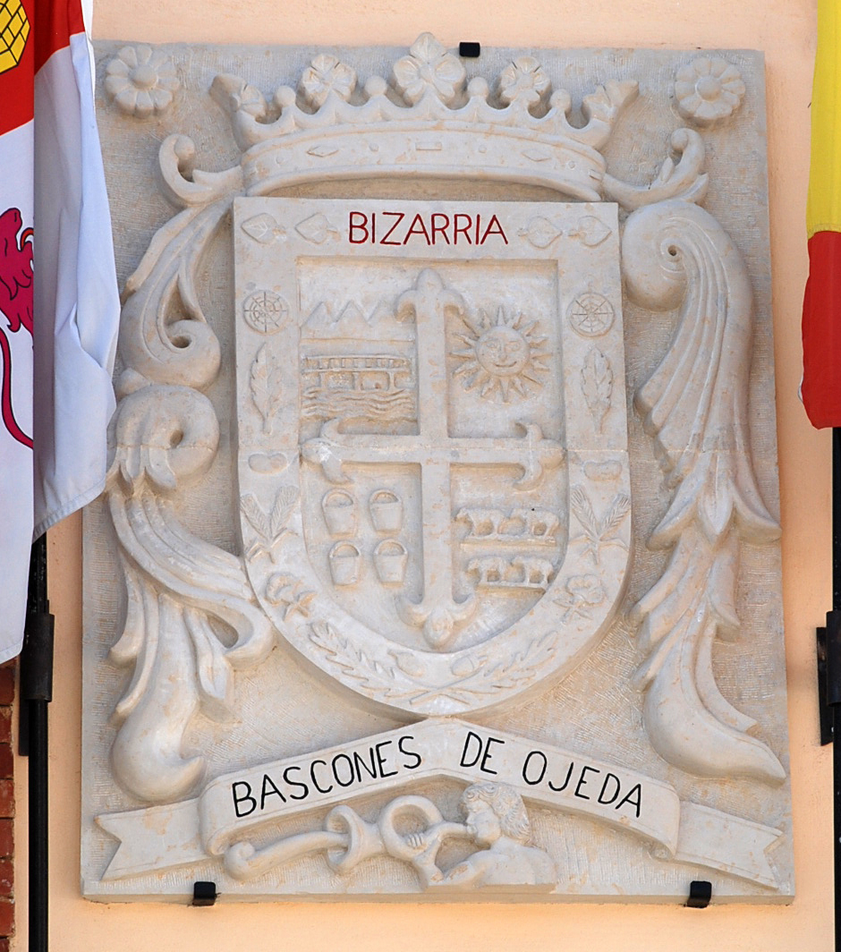 Báscones de Ojeda (Palencia, Castile and León).